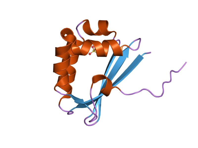 Cartoon representation of the molecular structure of protein registered with 1tuw code.